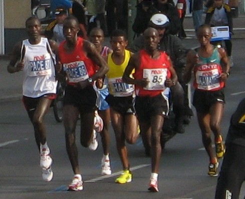 Berlin-Marathon 2008, Abel Kirui (#87, DNF), Elijah Keitani (#86, DNF), Haile Gebresselassie (later winner with a new world record), Wilson Kigen (#85, DNF) and Charles Kamathi (later #3) leading at Kilometer 24 leading at Kilometer 24